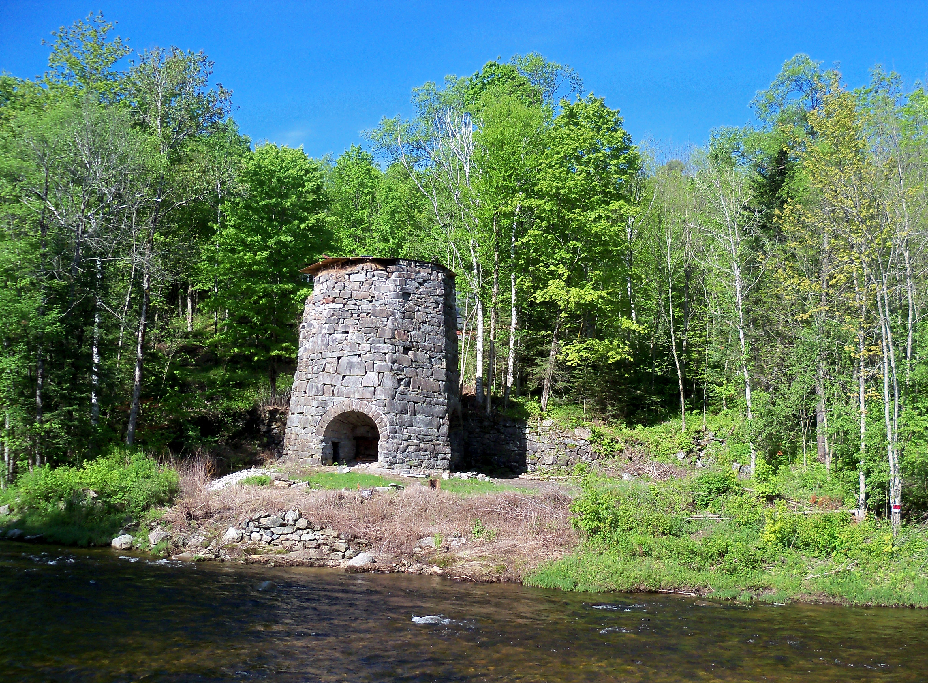 Early 19th century furnace used in the production of pig iron in Franconia, New Hampshire, USA.